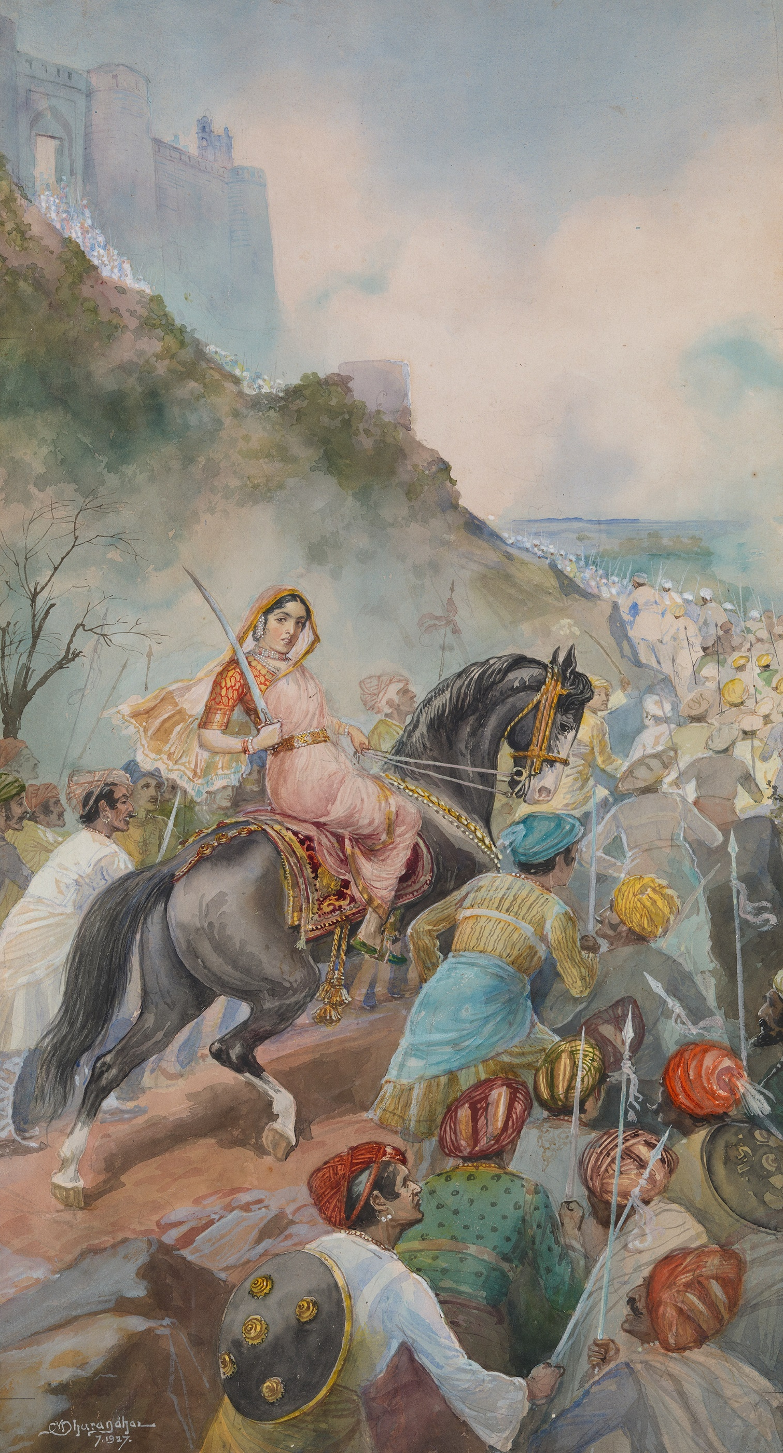 Maharani Tarabai of Karvir